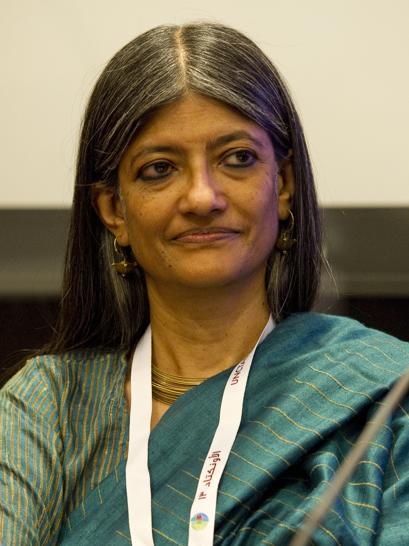 Professor Jayati Ghosh, Centre for Economic Studies and Planning, School of Social Sciences, Jawaharlal Nehru University, New Delhi, India